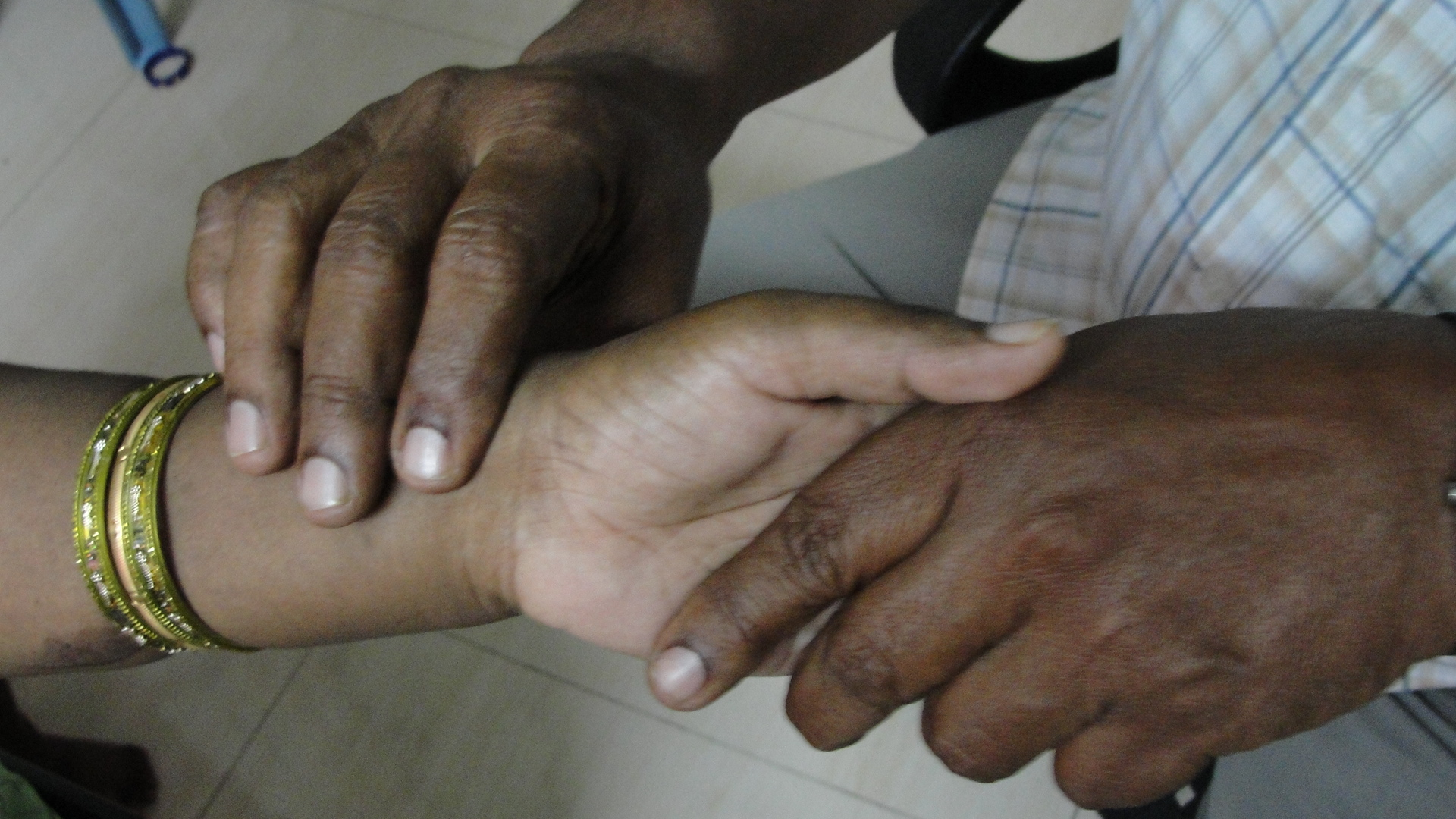 This photo depicting the pulse evaluation for Tamil acupuncture healing.